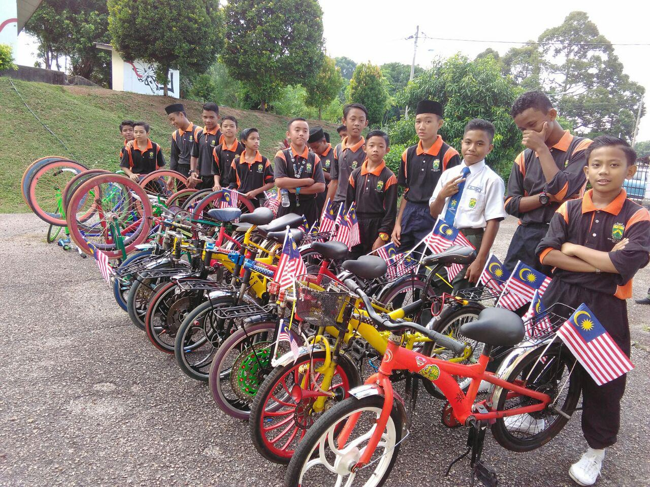 basikal lajak